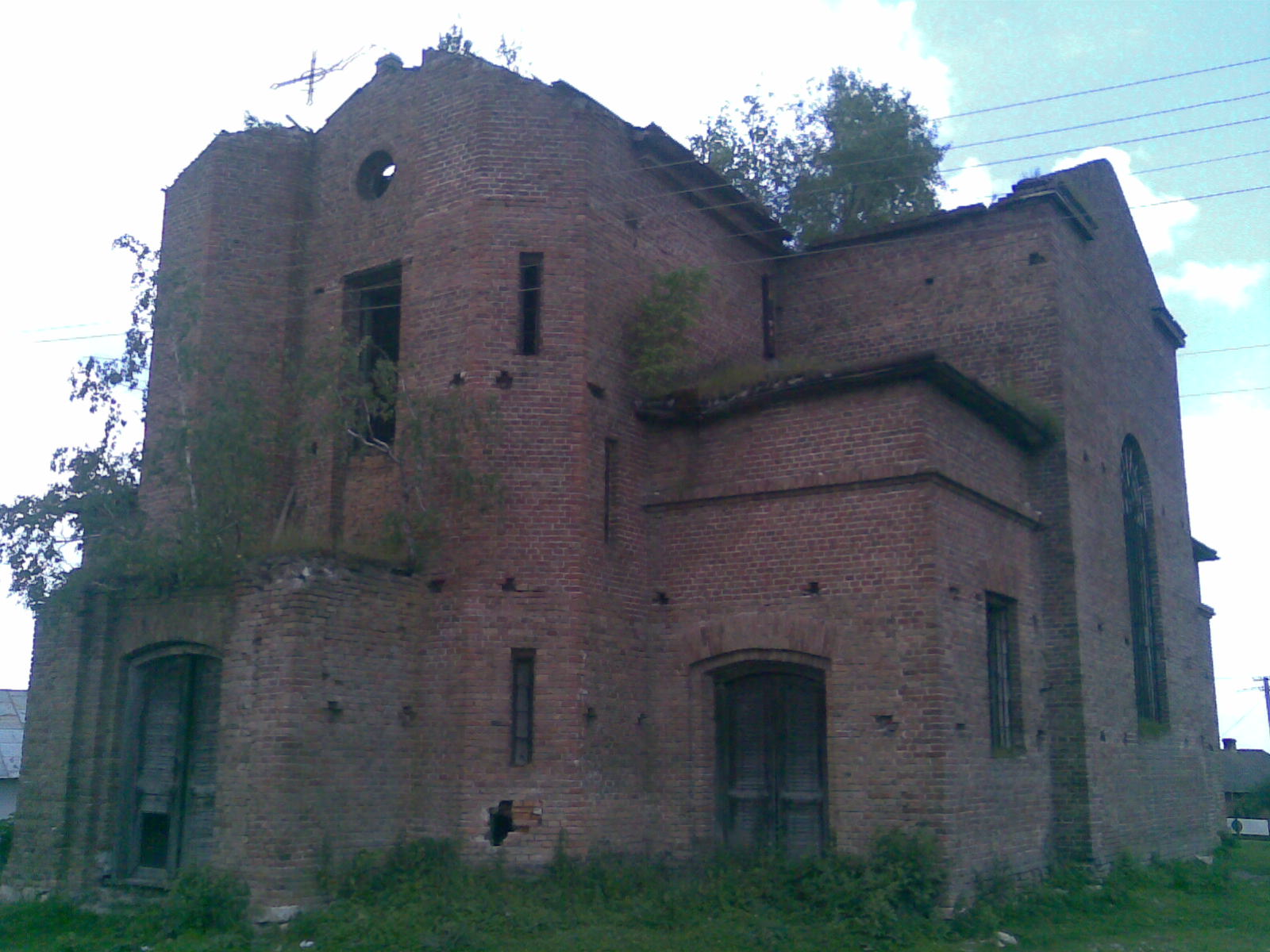 Roman-catholic church in Hlibow